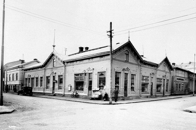 A wooden building once located at the crossing of Pakkahuoneenkatu and Isokatu in Oulu, Finland. During its history, the building used to house at least Jokela Sauna, photography store Dufva, and Lyyra Photography. The building has since been demolished, and nowadays there is an Arina hotel standing in its place.